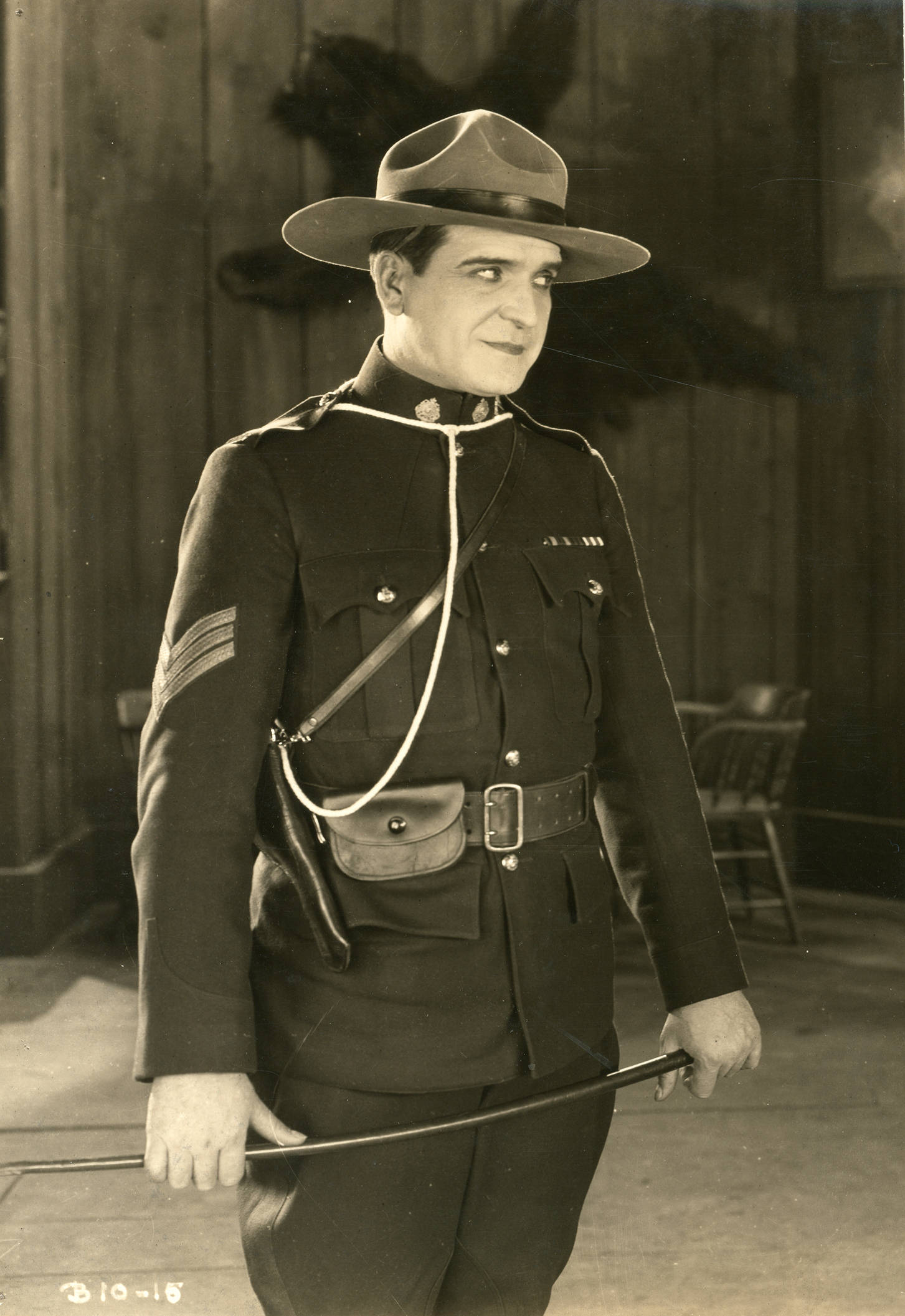 Earle Williams, silent film actor, in the American drama film The Eternal Struggle (1923) Subjects: actors